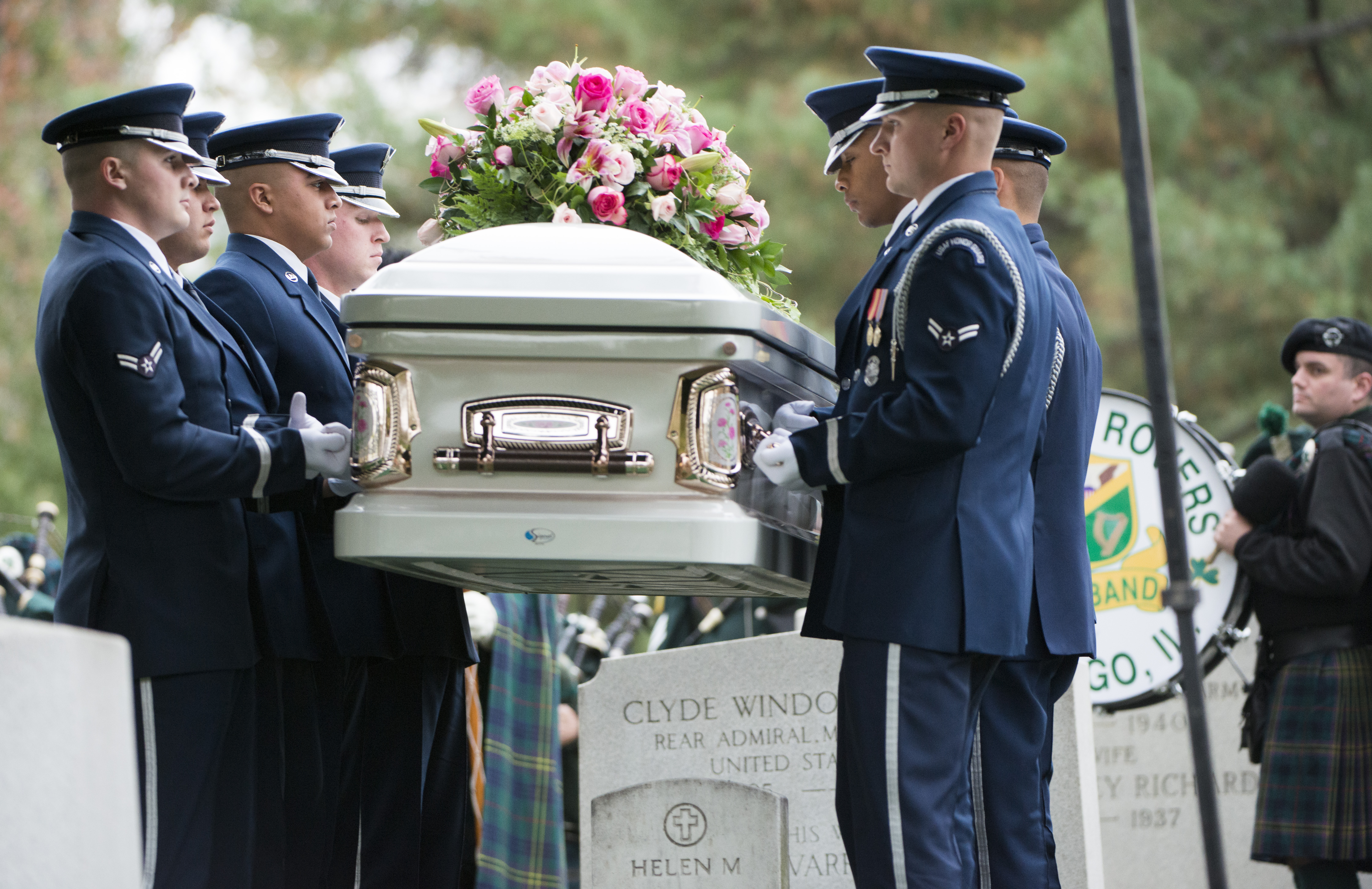 U.S. Air Force Honor Guard casket team carries the casket during the graveside service for Maureen Fitzsimons Blair, also known as Maureen O’Hara, in Section 2 of Arlington National Cemetery, Nov. 9, 2015. She is being buried with her husband U.S. Air Force Brig. Gen. Charles F. Blair Jr. (U.S. Army photo by Rachel Larue/Arlington National Cemetery/released)